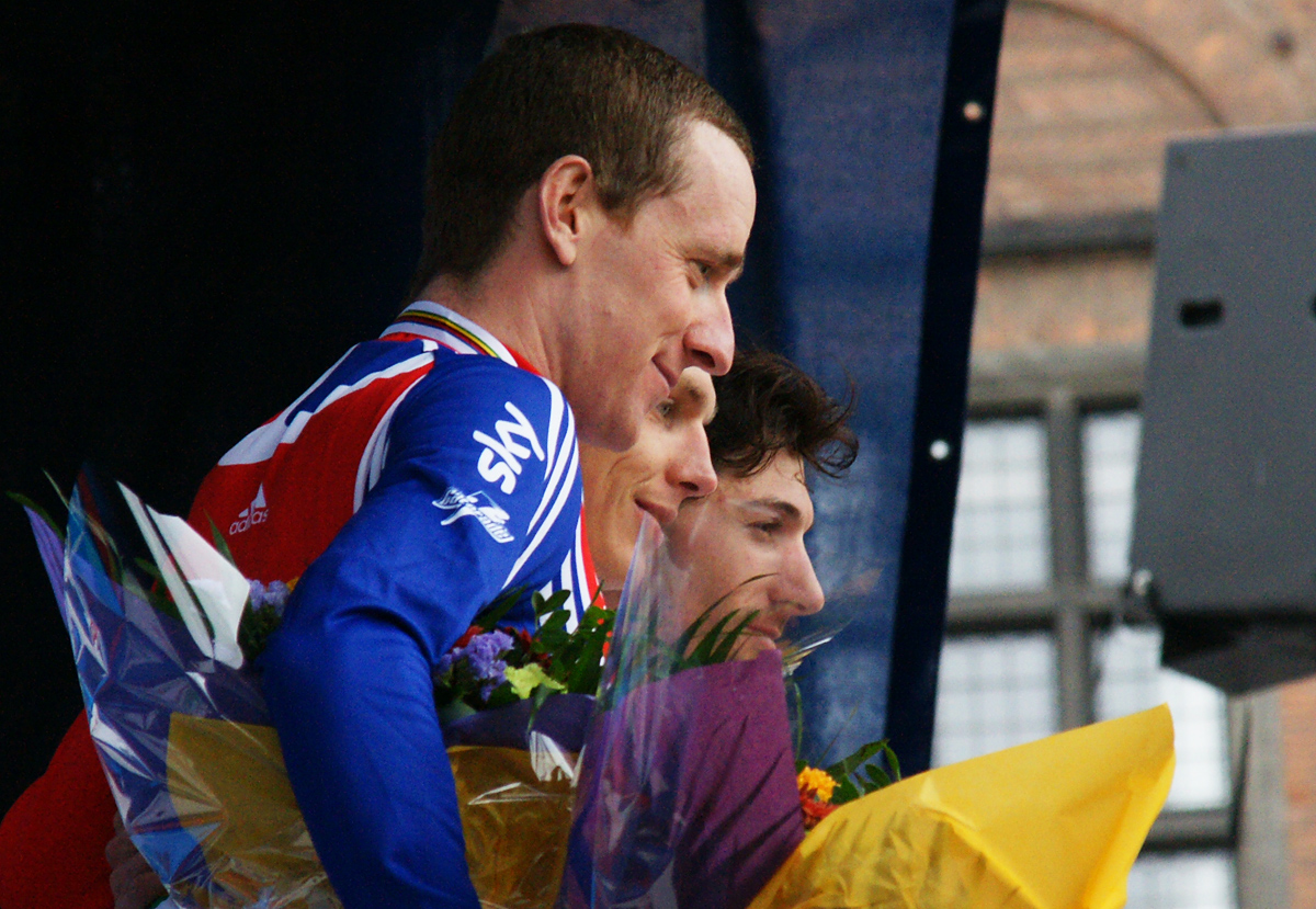 2011 UCI Road World Championships – Men's time trial - The podium with runner-up Bradley Wiggins, Great Britain (left) the winner and world champion Tony Martin, Germany (center) and no. 3 Fabian Cancellara, Switzerland (right)